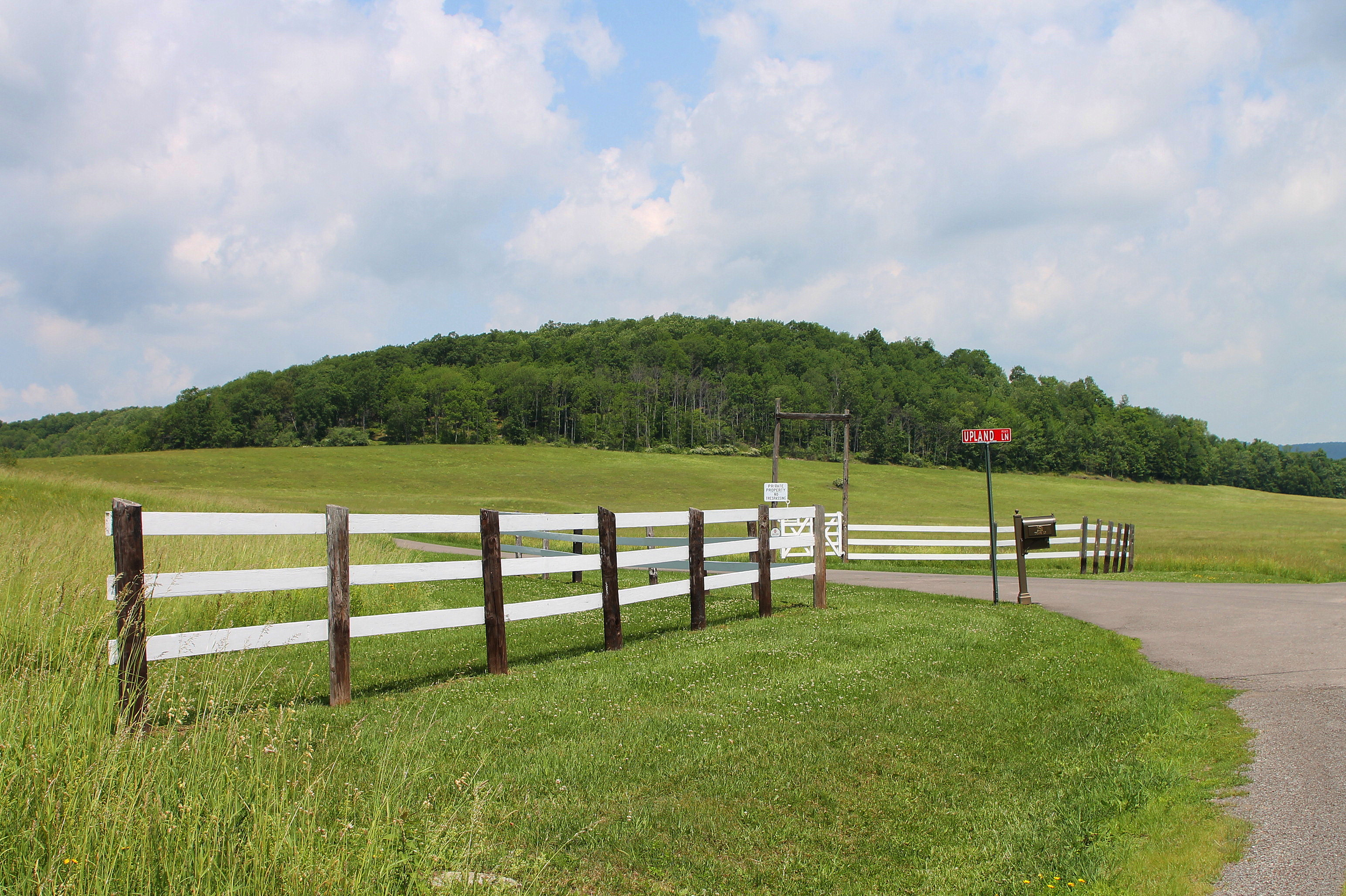 Fields, hills, woods, and a fence in Monroe Township, Wyoming County, Pennsylvania